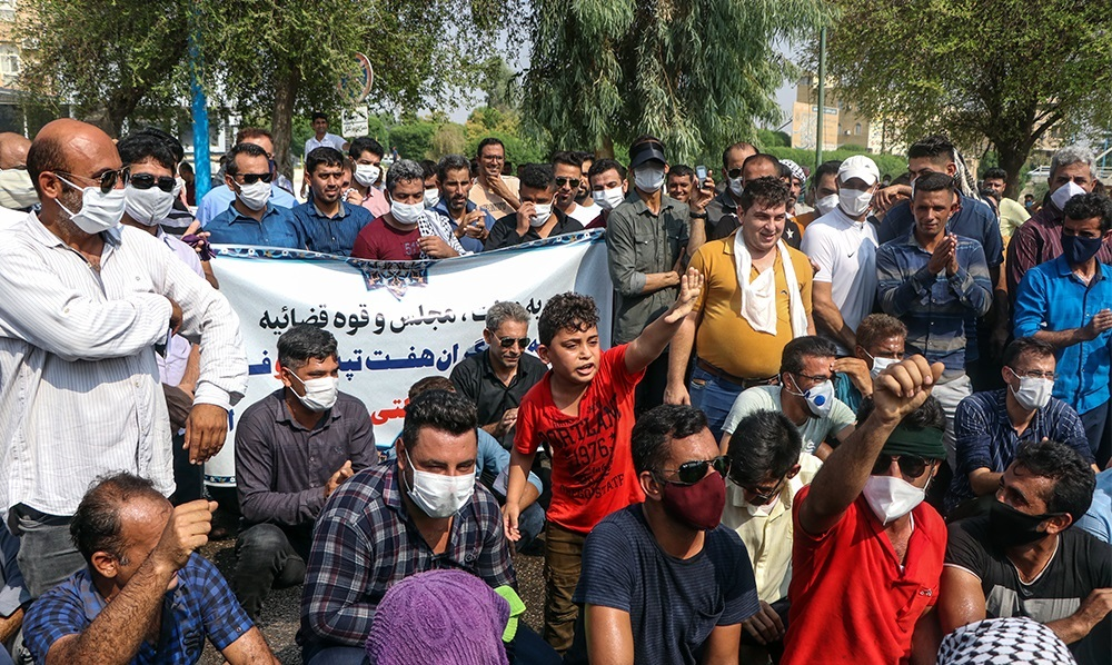 Hafttapeh strikes and protests, Shush, Iran